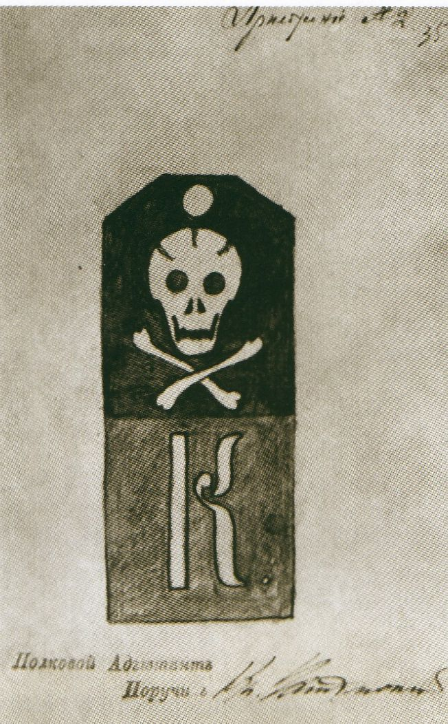 Draft of "shoulder marks" for privates of Kornilov's sturm unit. 1917.